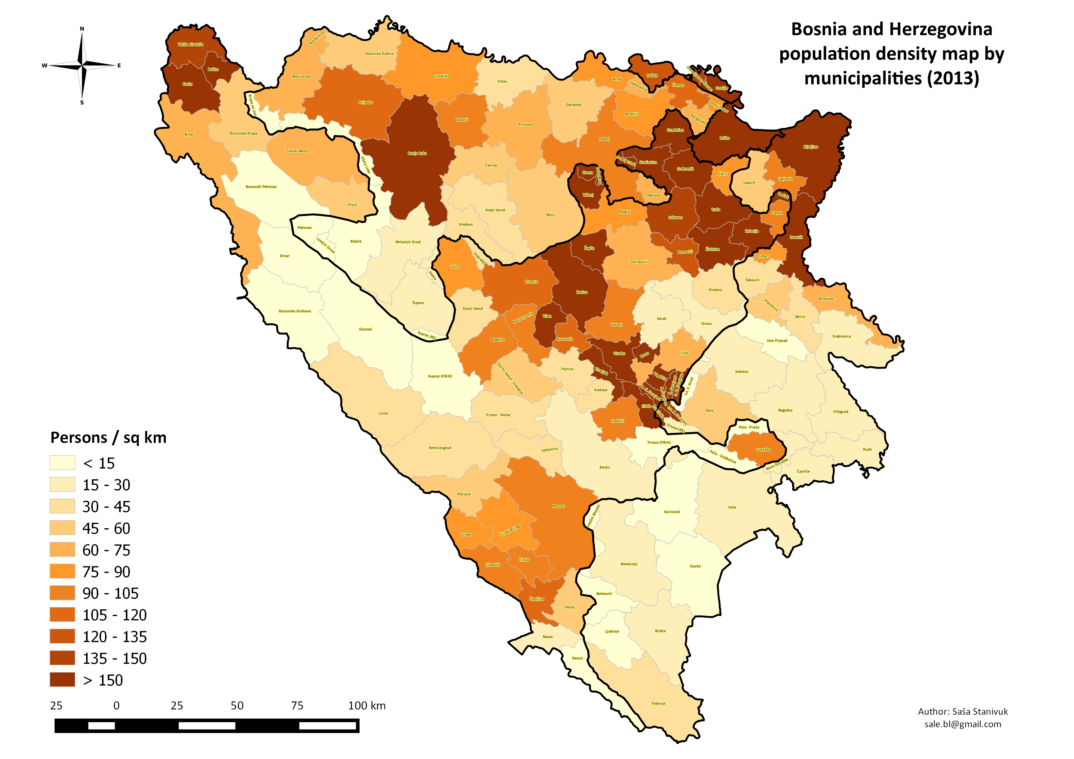 Bosnia and Herzegovina population density map - 2013 CENSUS FIRST RESULTS, BY MUNICIPALITIES